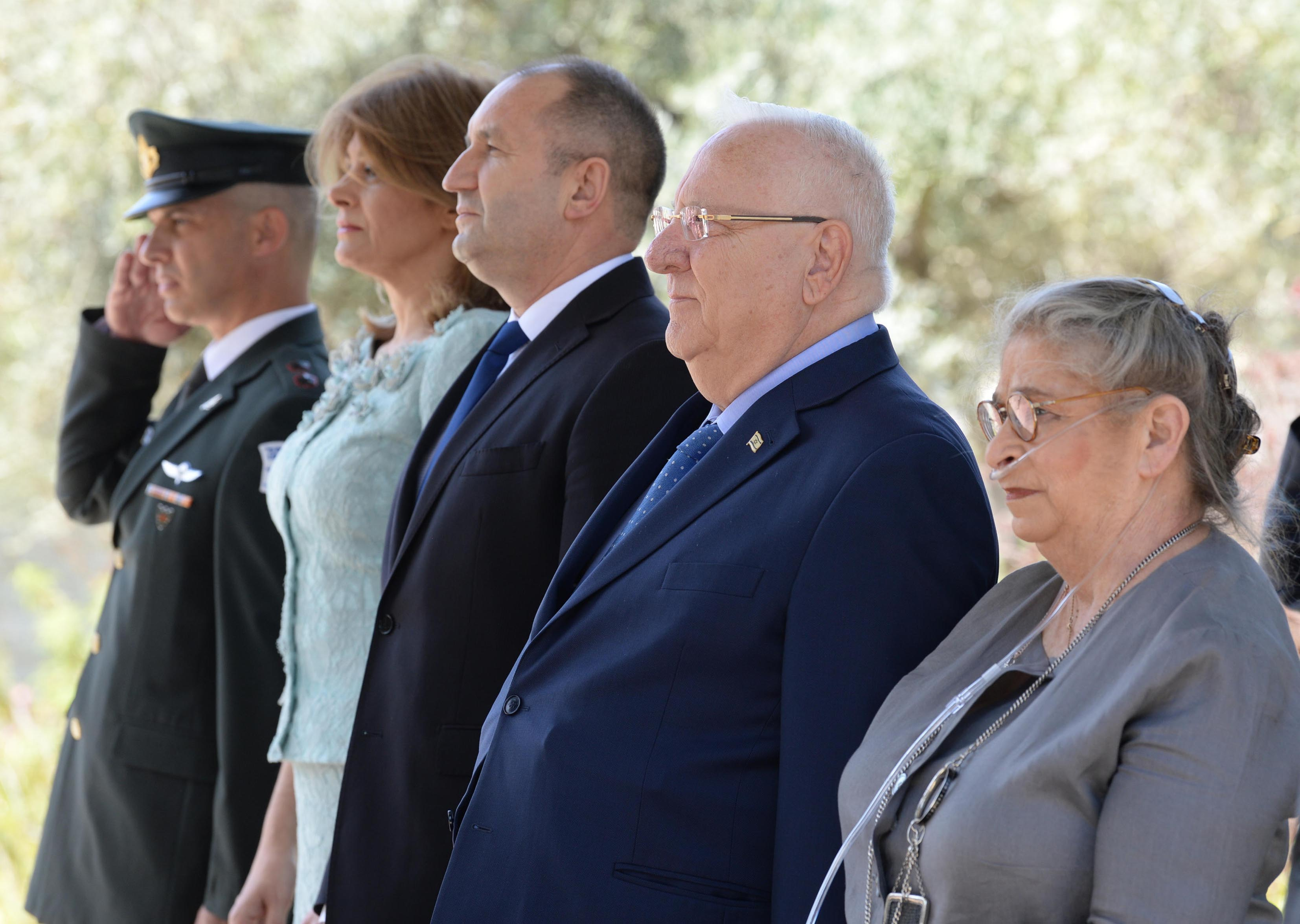 President of Israel, Reuven Rivlin, and his wife greeting the President of Bulgaria, Rumen Radev, and his wife, Dasislav Radev, who have been on a state visit to Israel. Tuesday, March 20, 2018. Photo Credit: Mark Neyman / GPO. Depicted people: Reuven Rivlin, Nechama Rivlin, Rumen Radev and Dasislav Radev